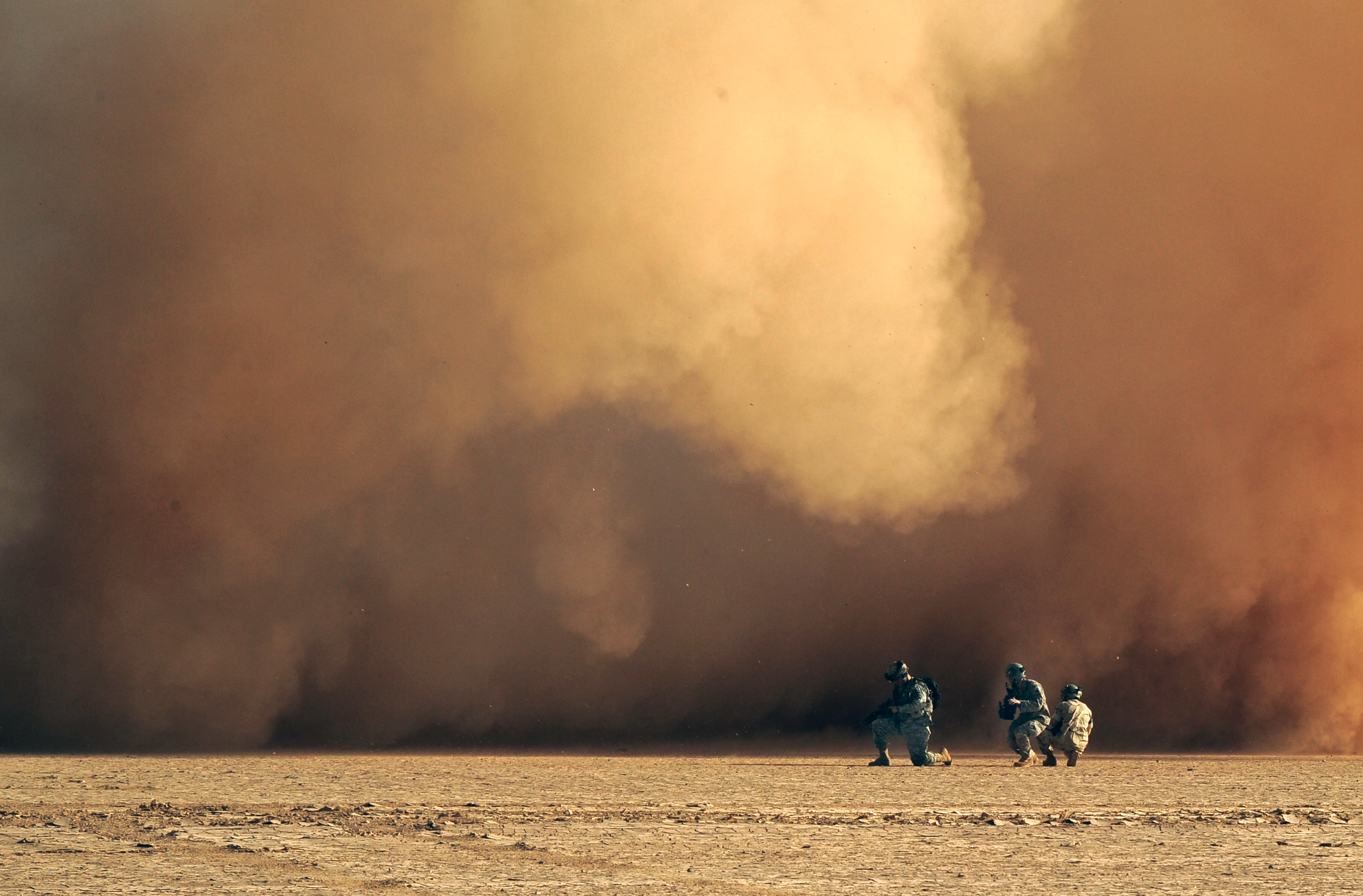 U.S. Army soldiers brace for a wall of dirt and rocks created by a CH-53E Super Stallion helicopter takeoff during a search and rescue exercise on Grand Bara, Djibouti, April 23, 2009. The soldiers are assigned to the 2nd Battalion,18th Field Artillery Regiment. U.S. Air Force photo by Staff Sgt. Joseph L. Swafford Jr.